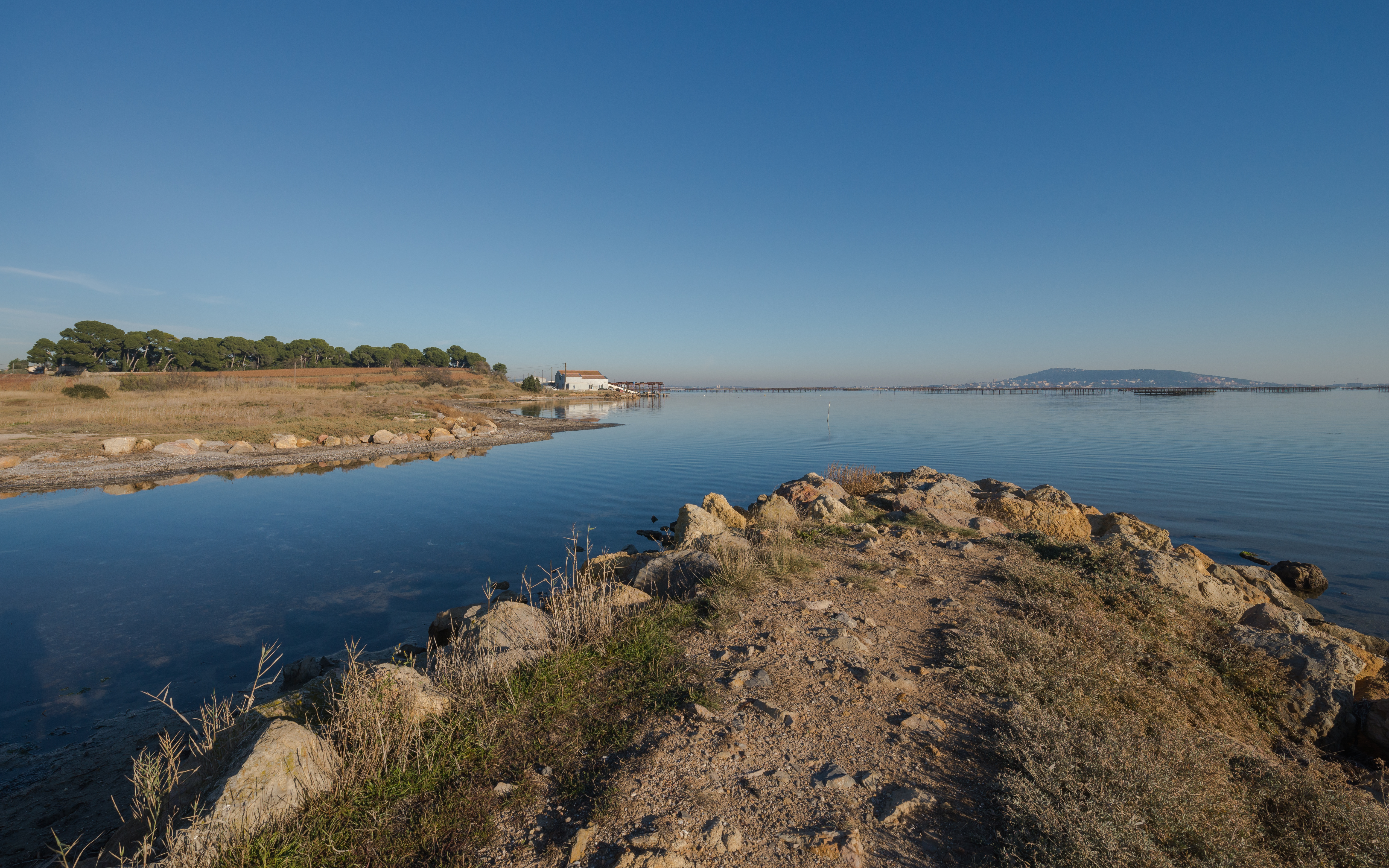 Eastern end of the communal area. At left the stream "du Pallas" and the place "Saint-Félix" in Loupian, the Étang de Thau and Sète on the right in the backgroud. Mèze, Hérault, France.